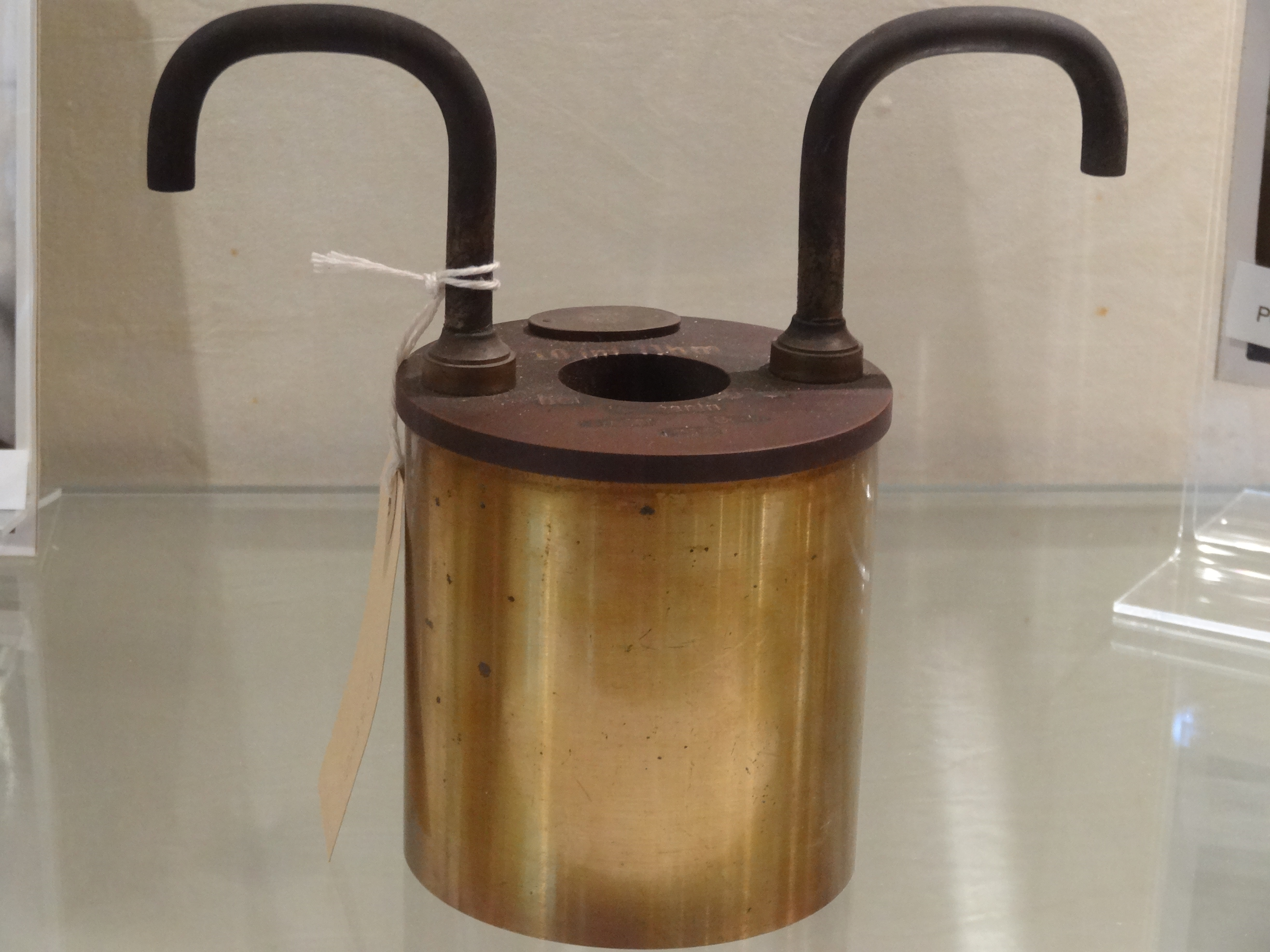 from the museum at Bushy Park House, with thanks to the NPL for holding an open day. Resistor made in 1900 of Manganin